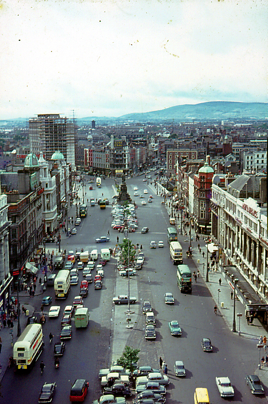 You can't replicate this shot because the Pillar was blown up by the IRA in 1966